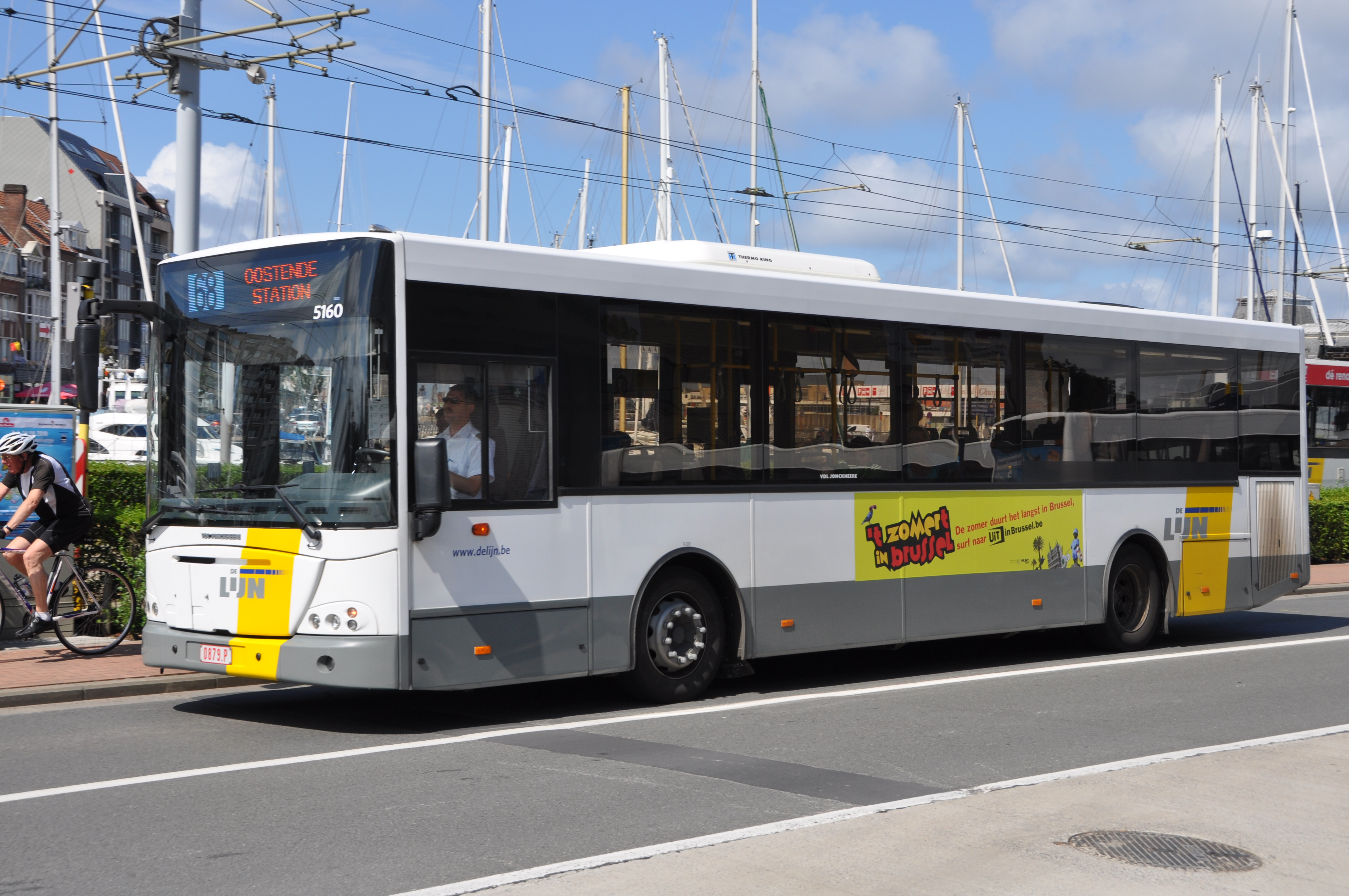 Jonckheere Transit 2000 bus in Belgium. De Lijn operator.